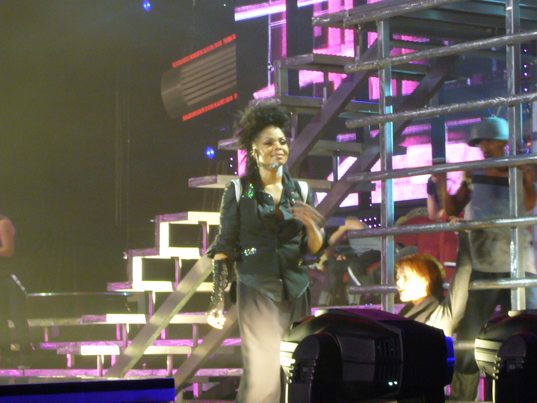 Janet Jackson, Vancouver